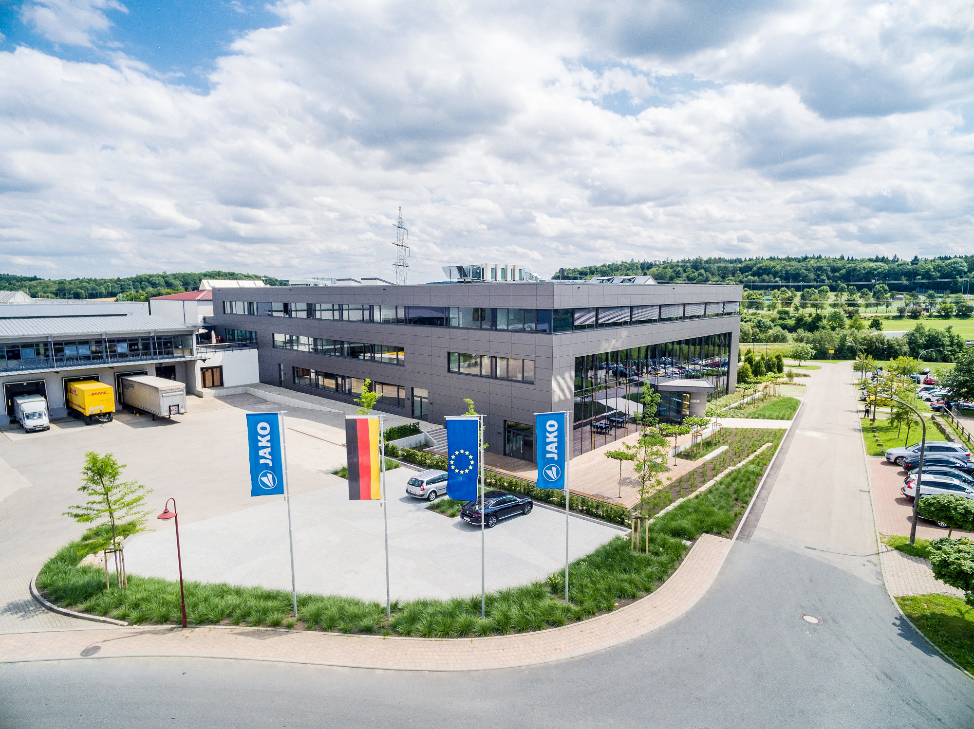 JAKO Teamcenter, headquarter of sports article manufacturer JAKO